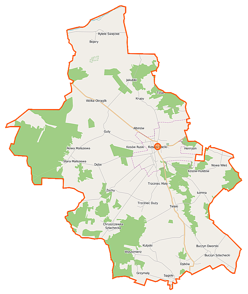 Map of Gmina Kosów Lacki, Poland This map of Kosów Lacki (gmina) was created from OpenStreetMap project data, collected by the community. This map may be incomplete, and may contain errors. Don't rely solely on it for navigation. Border coordinates52.697221.9678←↕→22.249752.4943